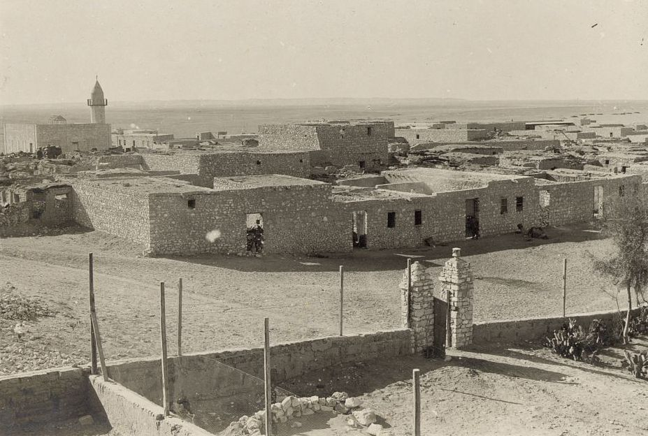 View from The Fortress of an-Nekhel overlooking the town of Nekhel at the exact center of the Sinai Peninsula.